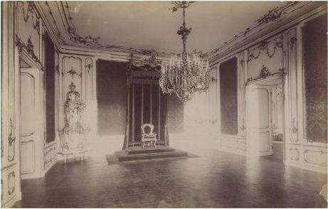 The Small Throne Room in the Royal Castle of Budapest.